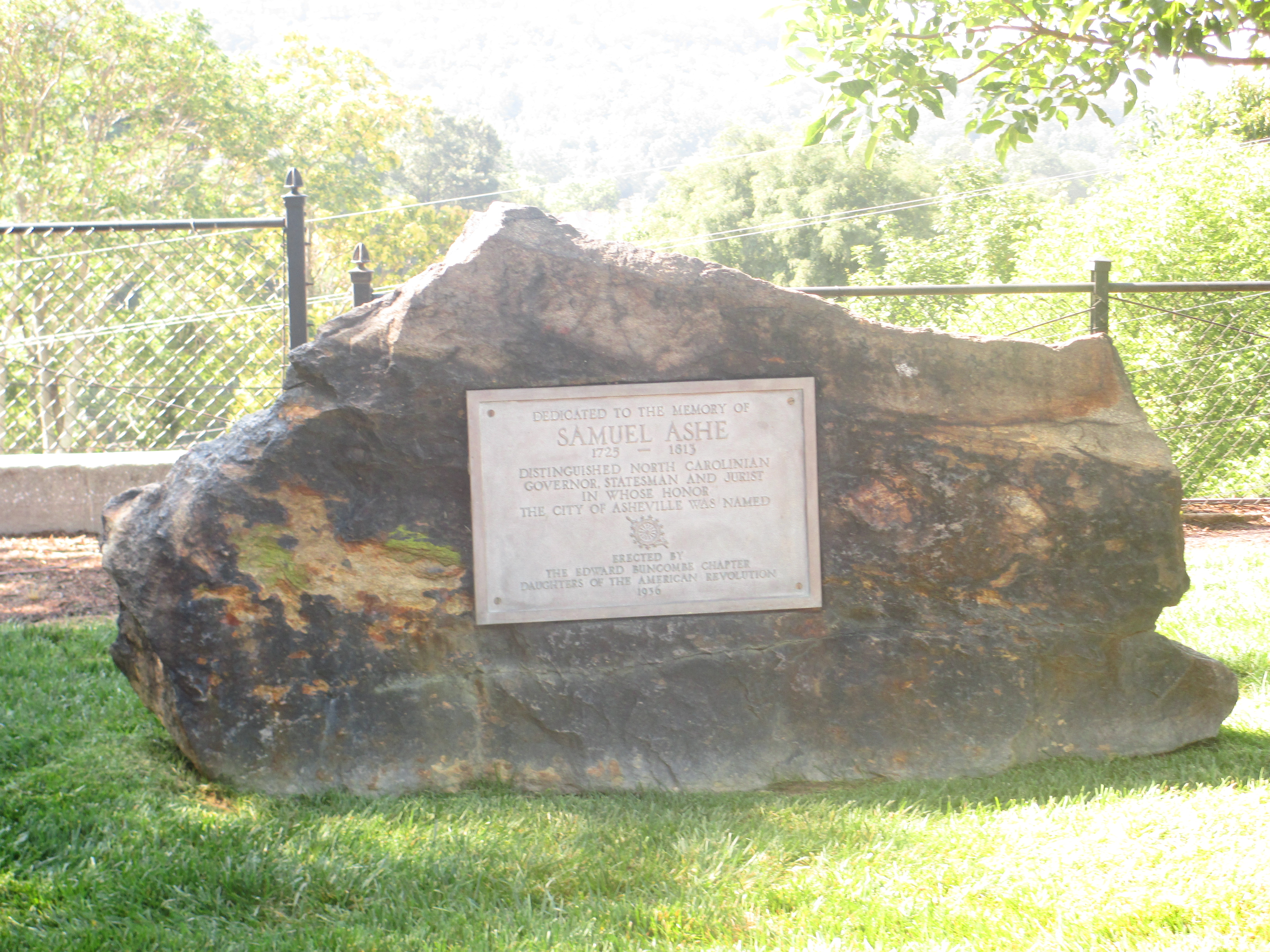 I took photo of Ashe marker in Asheville, NC, with Canon camera.